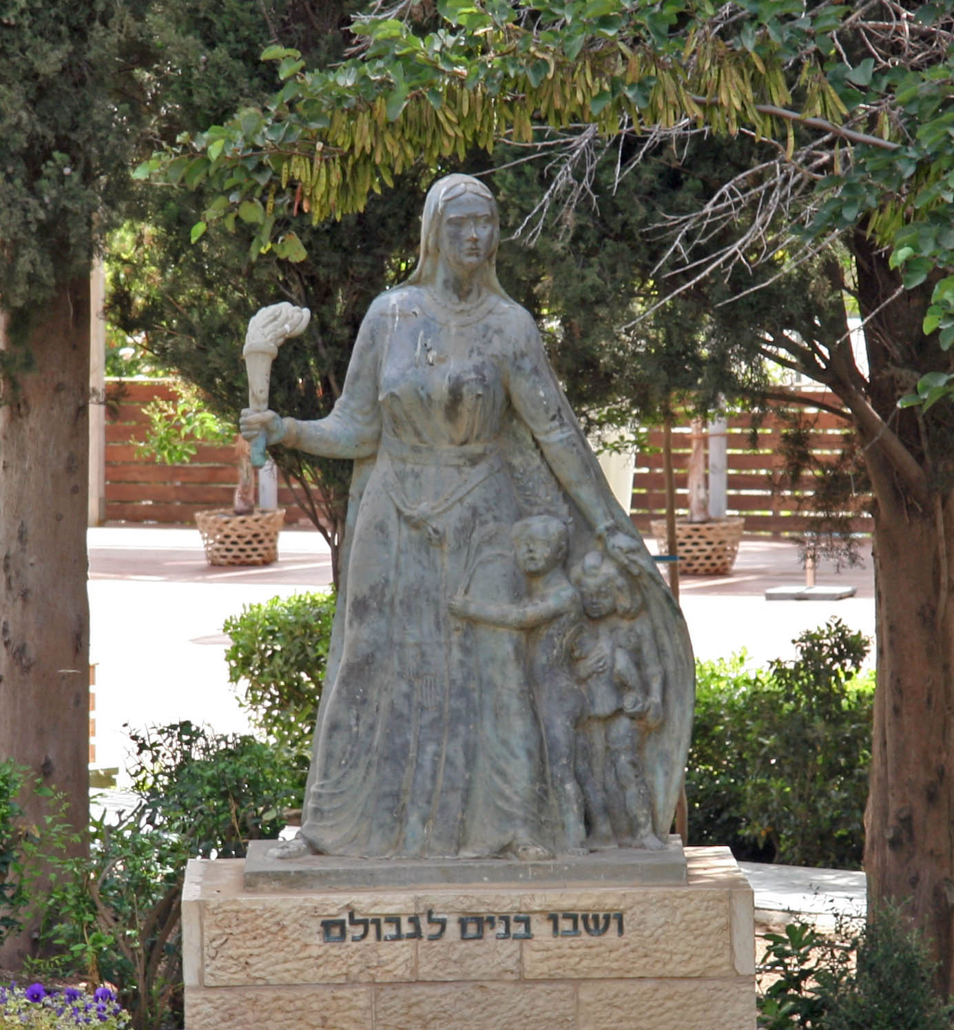 Ramat Rachel